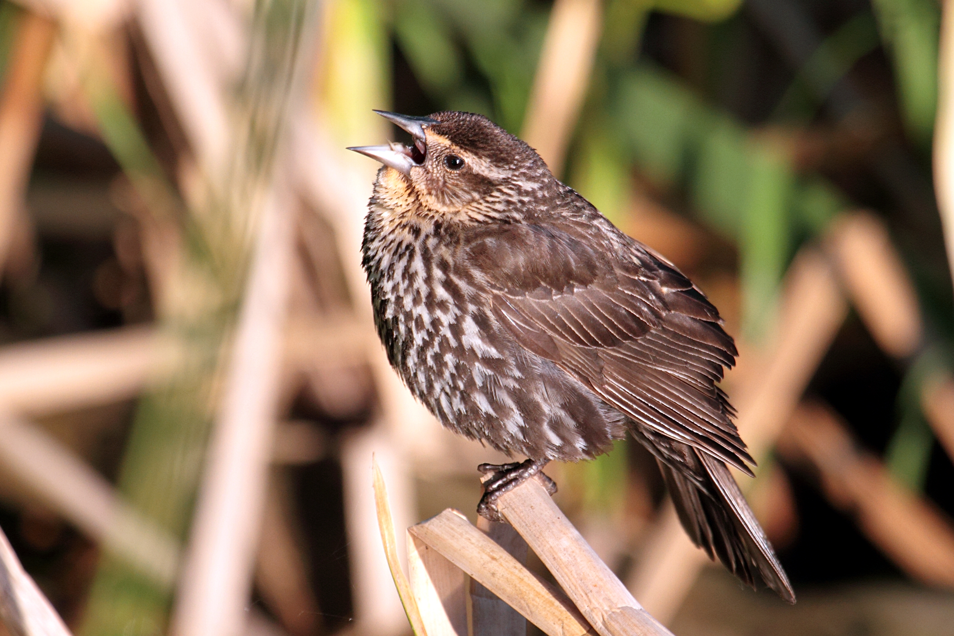 Red-winged Blackbird, female, Léon-Provancher marsh, Quebec, Canada.